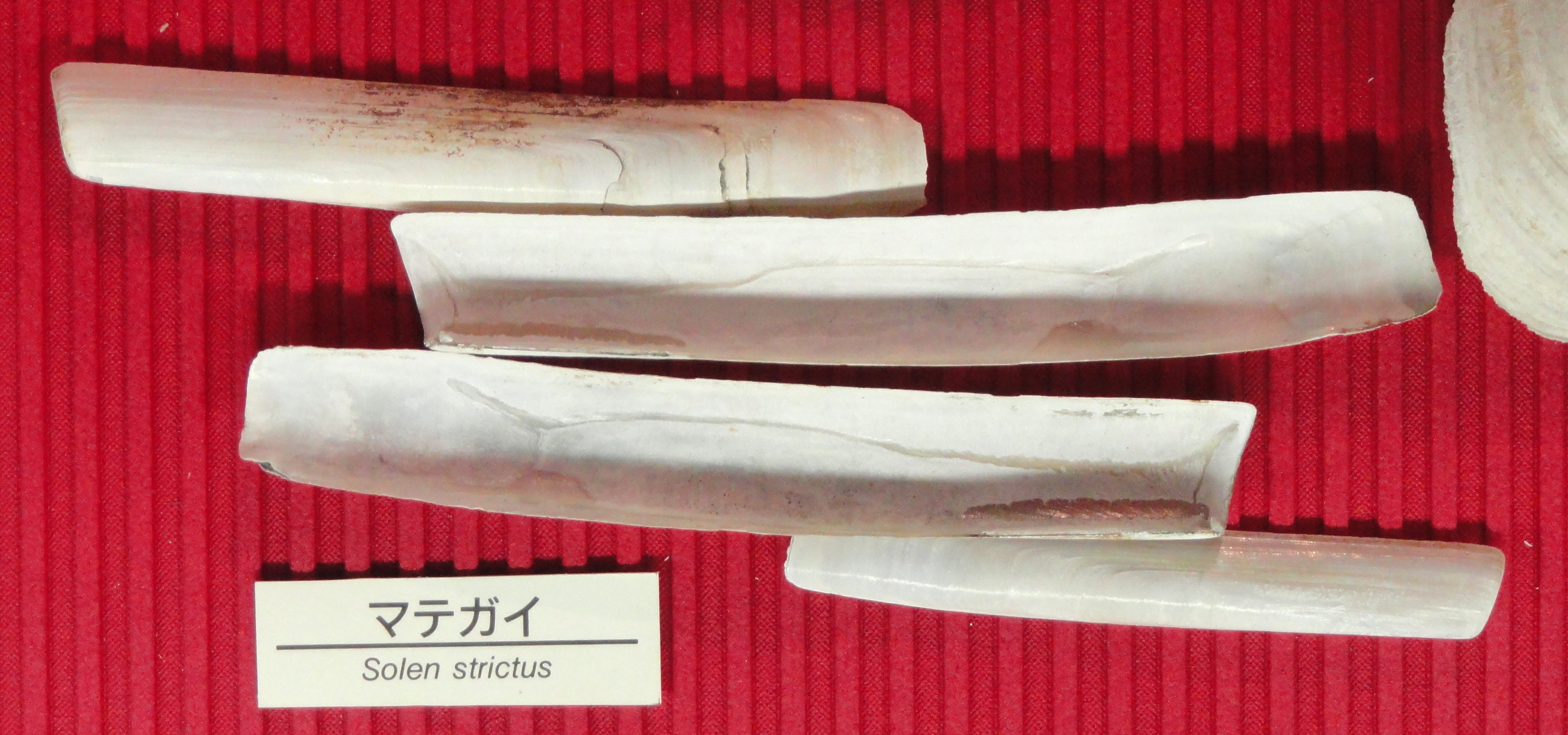 Exhibit in the Osaka Museum of Natural History, Osaka, Japan.